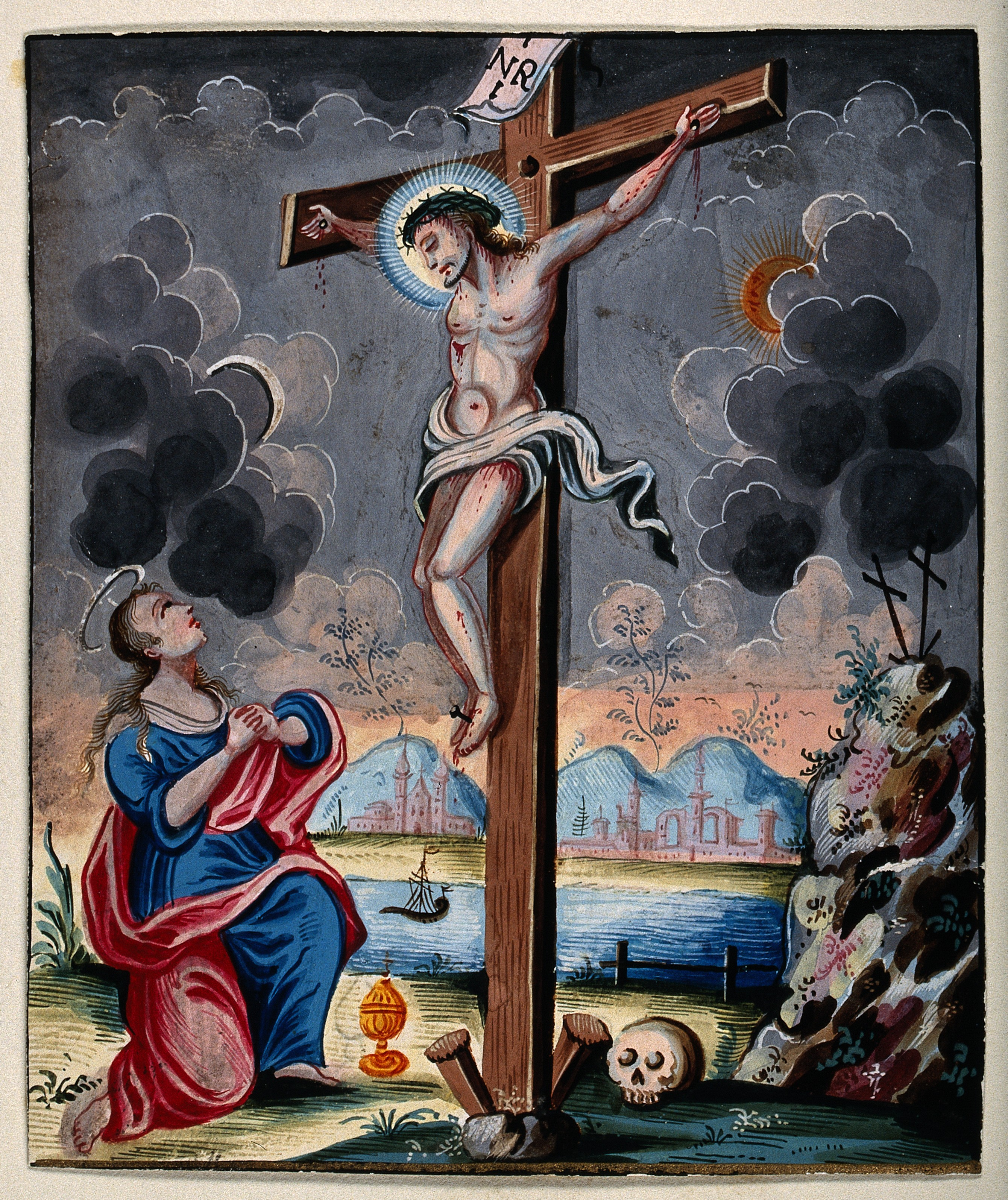 Mary Magdalene clasps her hands before the crucified Christ. Watercolour painting. Iconographic Collections Keywords: Jesus Christ; Mary Magdalene